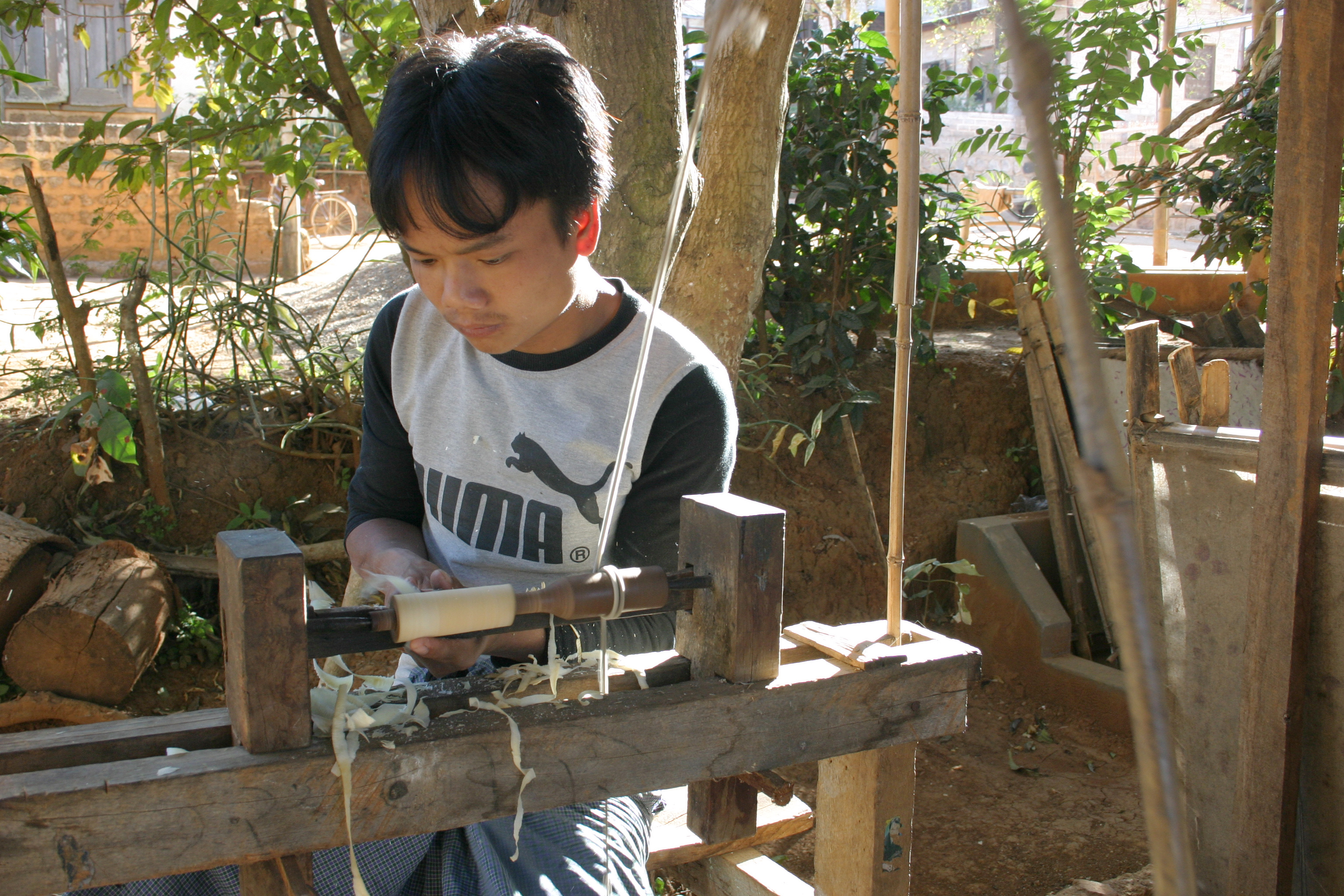 Woodturner in Pindaya, Myanmar. Working with footdriven lathe.